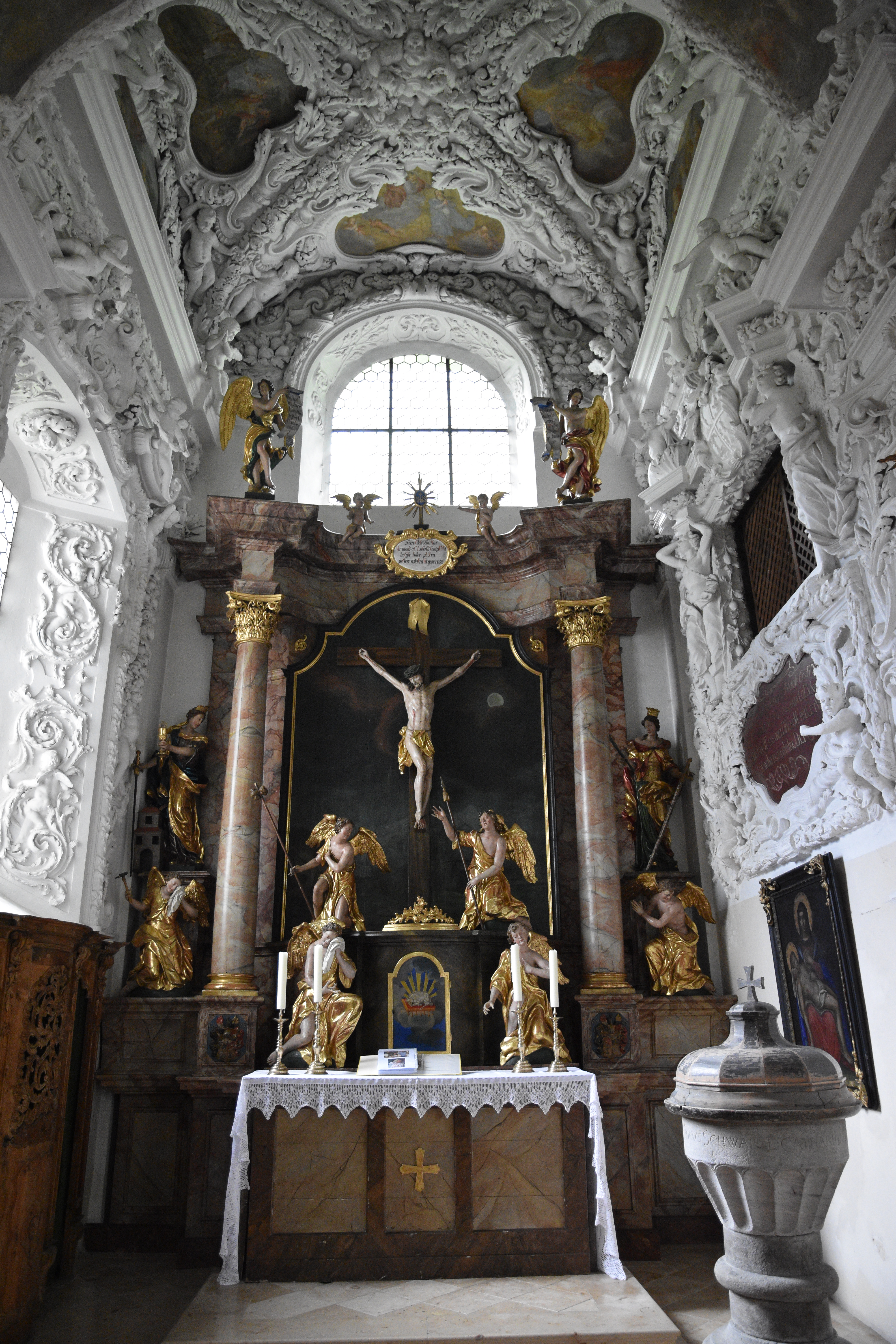 Church Pfarrkirche Kalwang Interior